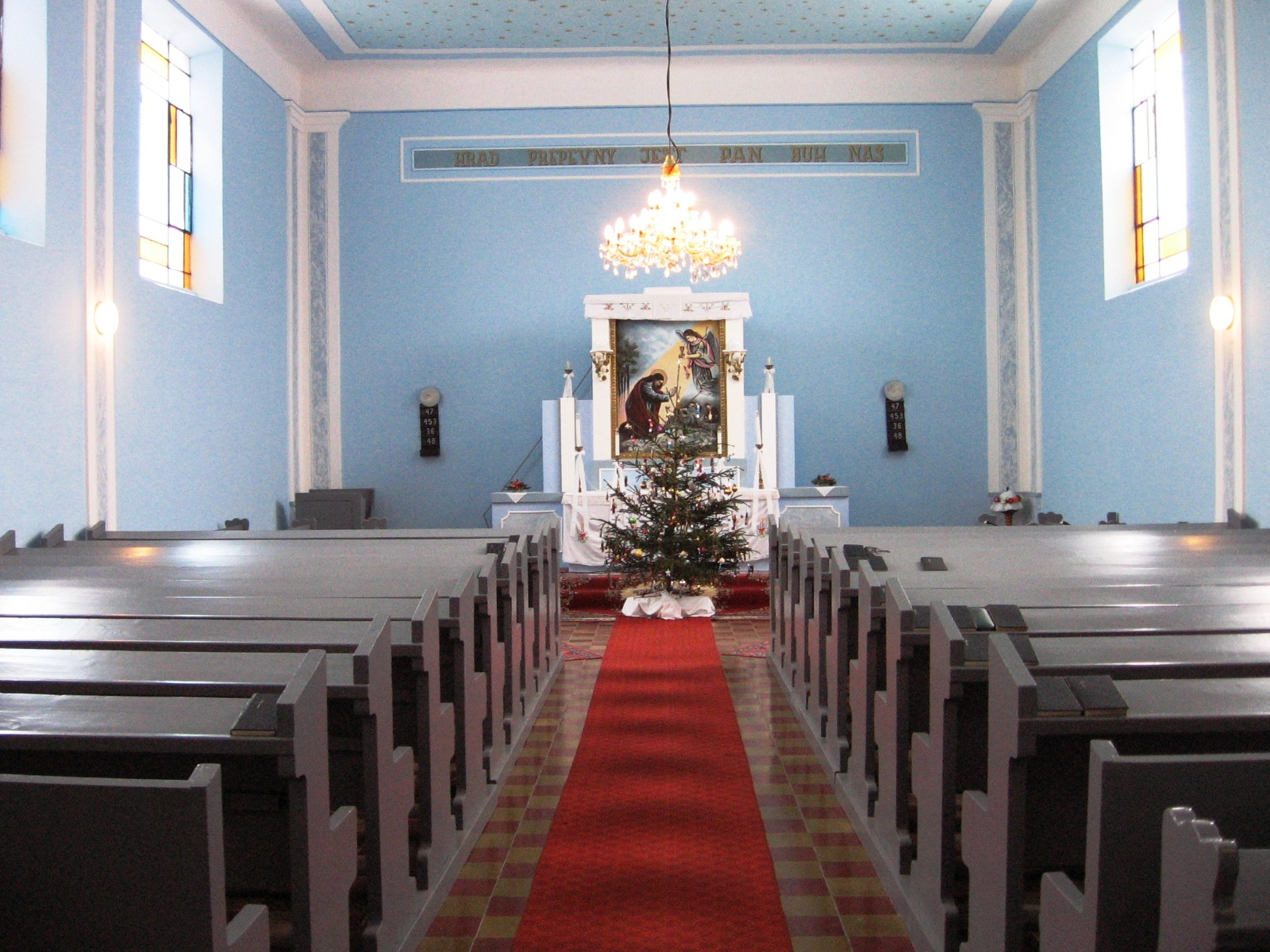 Interior of Slovak evangelical church in Ostojićevo (Vojvodina, Serbia). Srpski (latinica): Enterijer Slovačke evangelističke crkve u Ostojićevu.